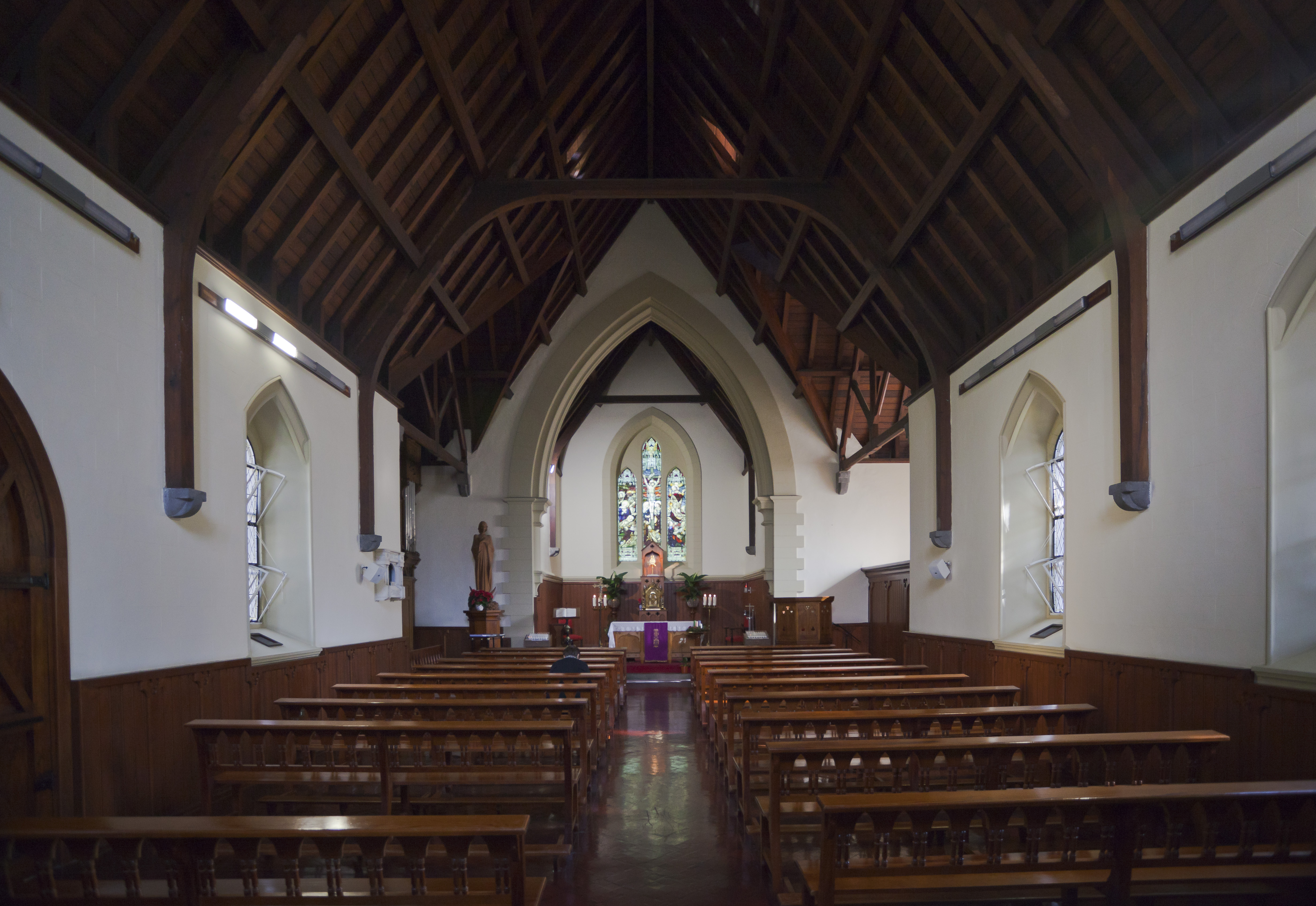 Church of St George, Santa Cruz de Tenerife, Spain